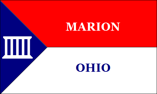 City Flag of Marion, Ohio, United States.